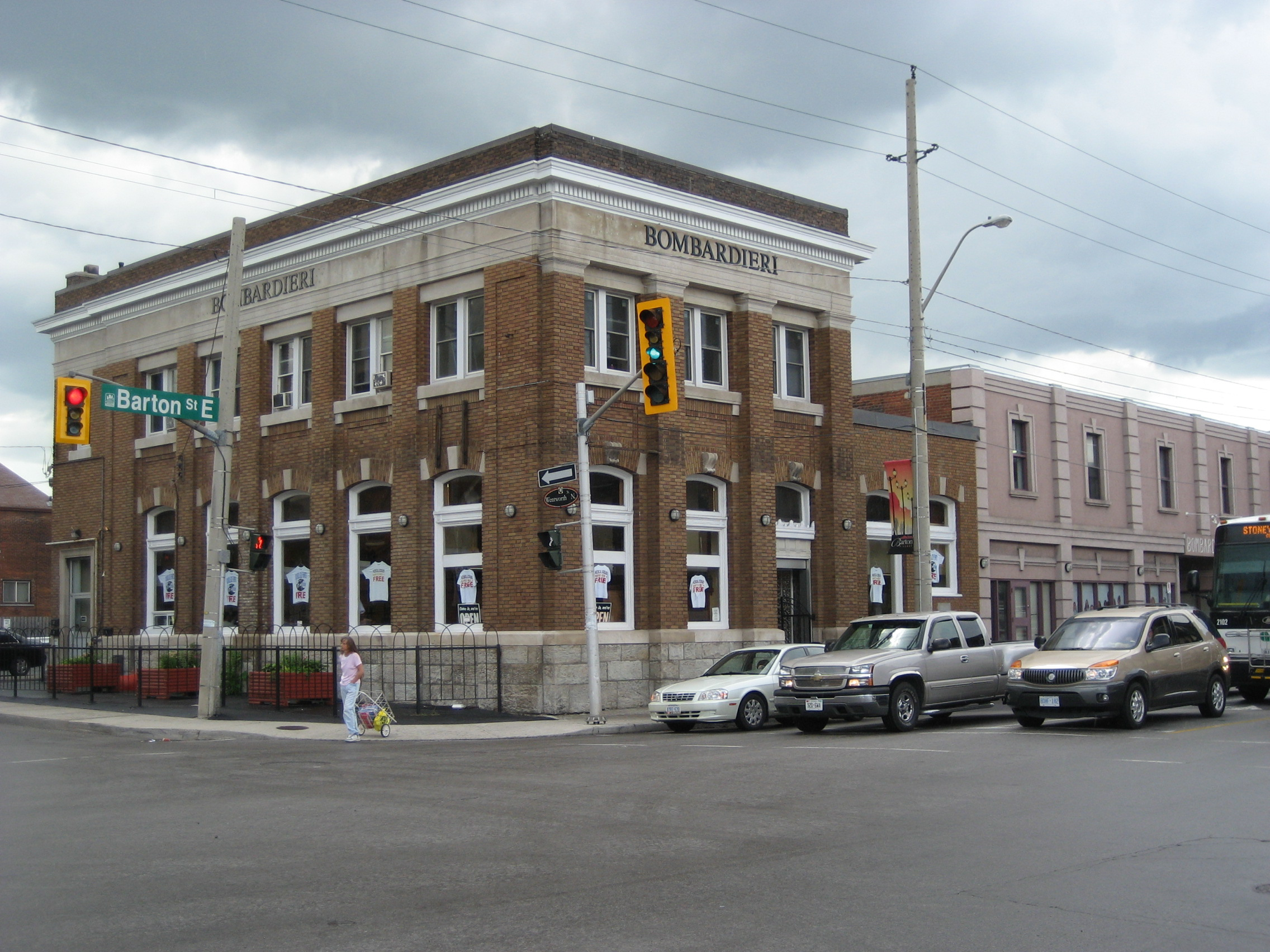 Corners of Wentworth & Barton Streets, Hamilton, Canada.